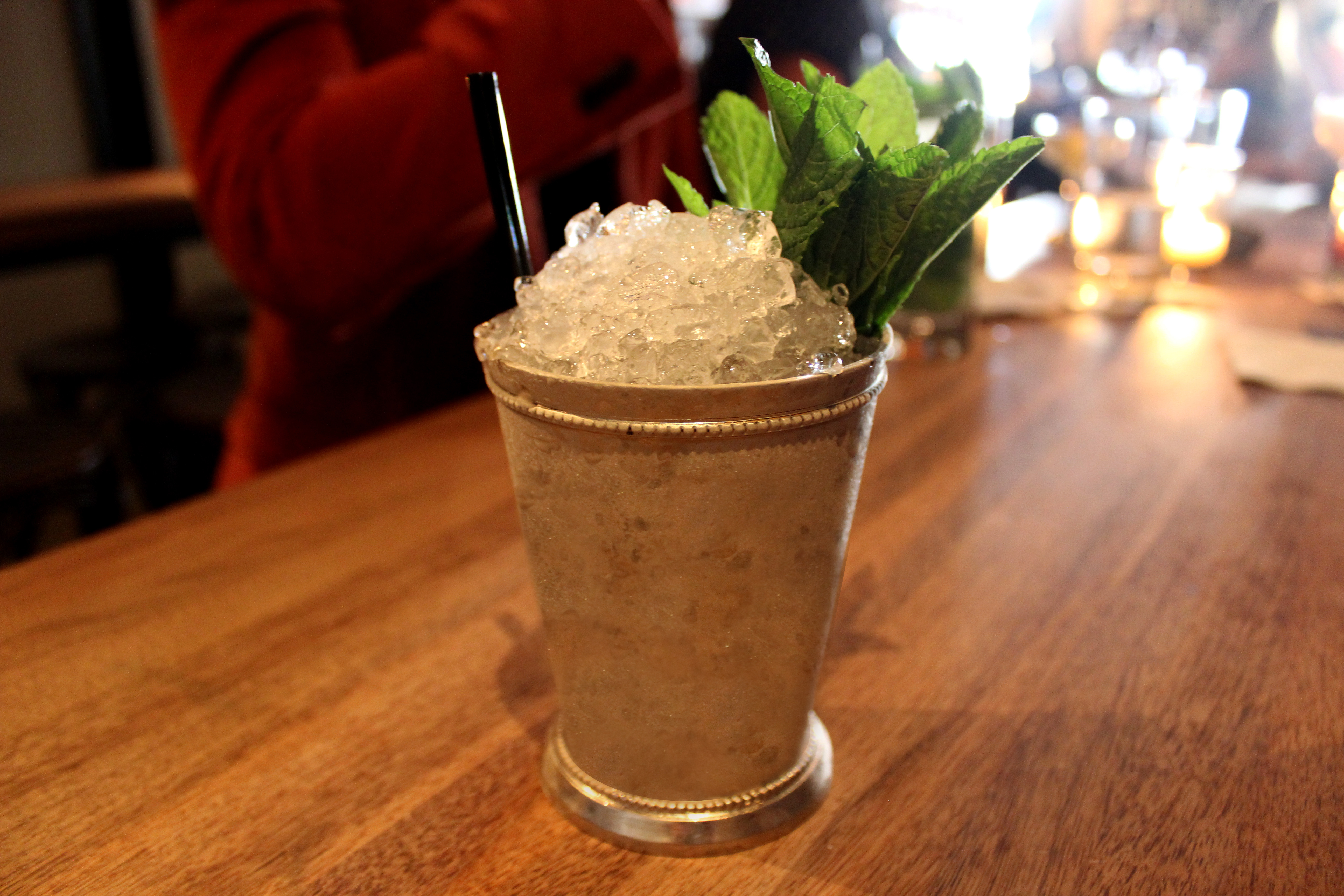 A Mint Julep served in a classic pewter julep cup at Rye, San Francisco, California.